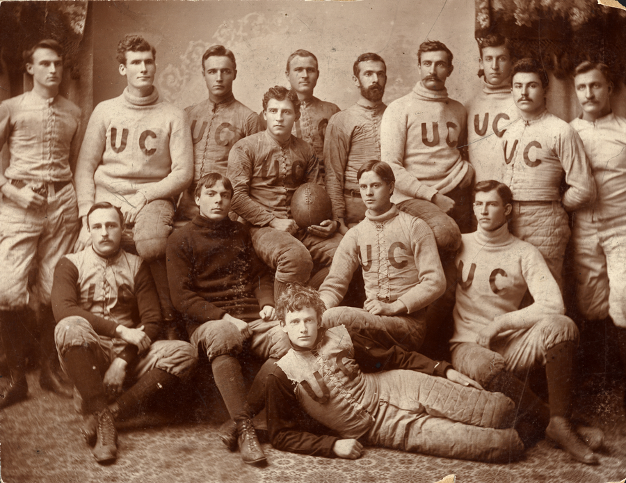 An 1892 photograph of the University of Chicago football team. The team's coach, A. A. Stagg, is visible in the center, holding a football.